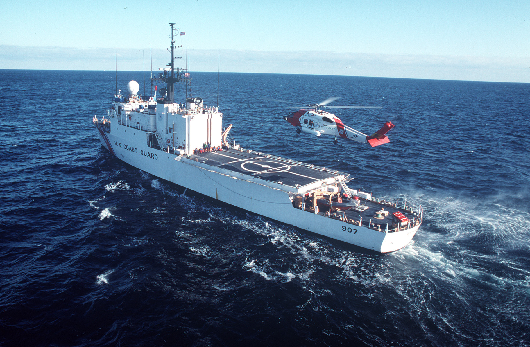 Atlantic Ocean (Jan. 10)--The Coast Guard Cutter Escanaba (WMEC 907) conducts dynamic interface testing with an HH60J helicopter to determine maximum wind conditions and ship motion for a safe landing. USCG photo by PA2 David M. Santos